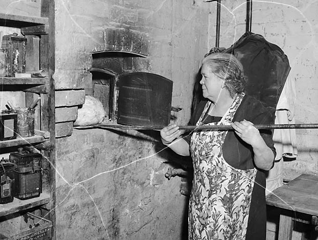 Teitl Cymraeg/Welsh title: Bara wedi coginio mewn ffwrn hynafol yn Llanrhaeadr-ym-Mochnant. Ffotograffydd/Photographer: Geoff Charles (1909-2002) Nodyn/Note: Images of Miss E Hughes with the cottage loaves which she still baked in an ancient oven at Llanrhaeadr-ym-Mochnant, and sold in the village. The oven was in the back of an old world mill and was heated in the medieval way by putting sticks into it and bringing them to a white heat. Dyddiad/Date: January 5, 1955. Cyfrwng/Medium: Negydd ffilm / Film negative Cyfeiriad/Reference: (gch07386) Rhif cofnod / Record no.: 3368114 Rhagor o wybodaeth am gasgliad Geoff Charles yn Llyfrgell Genedlaethol Cymru More information about the Geoff Charles Collection at the National Library of Wales